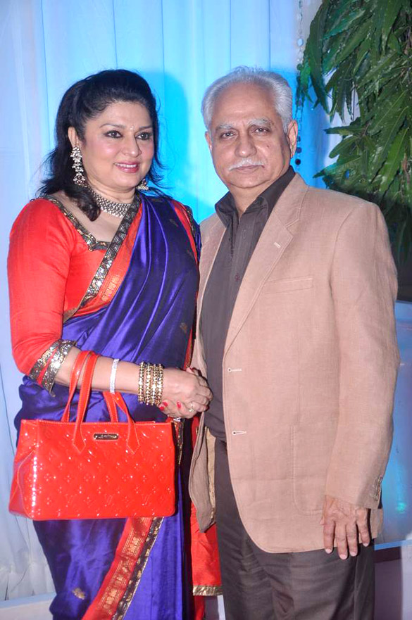 Kiran Juneja, Ramesh Sippy at Esha Deol's wedding reception